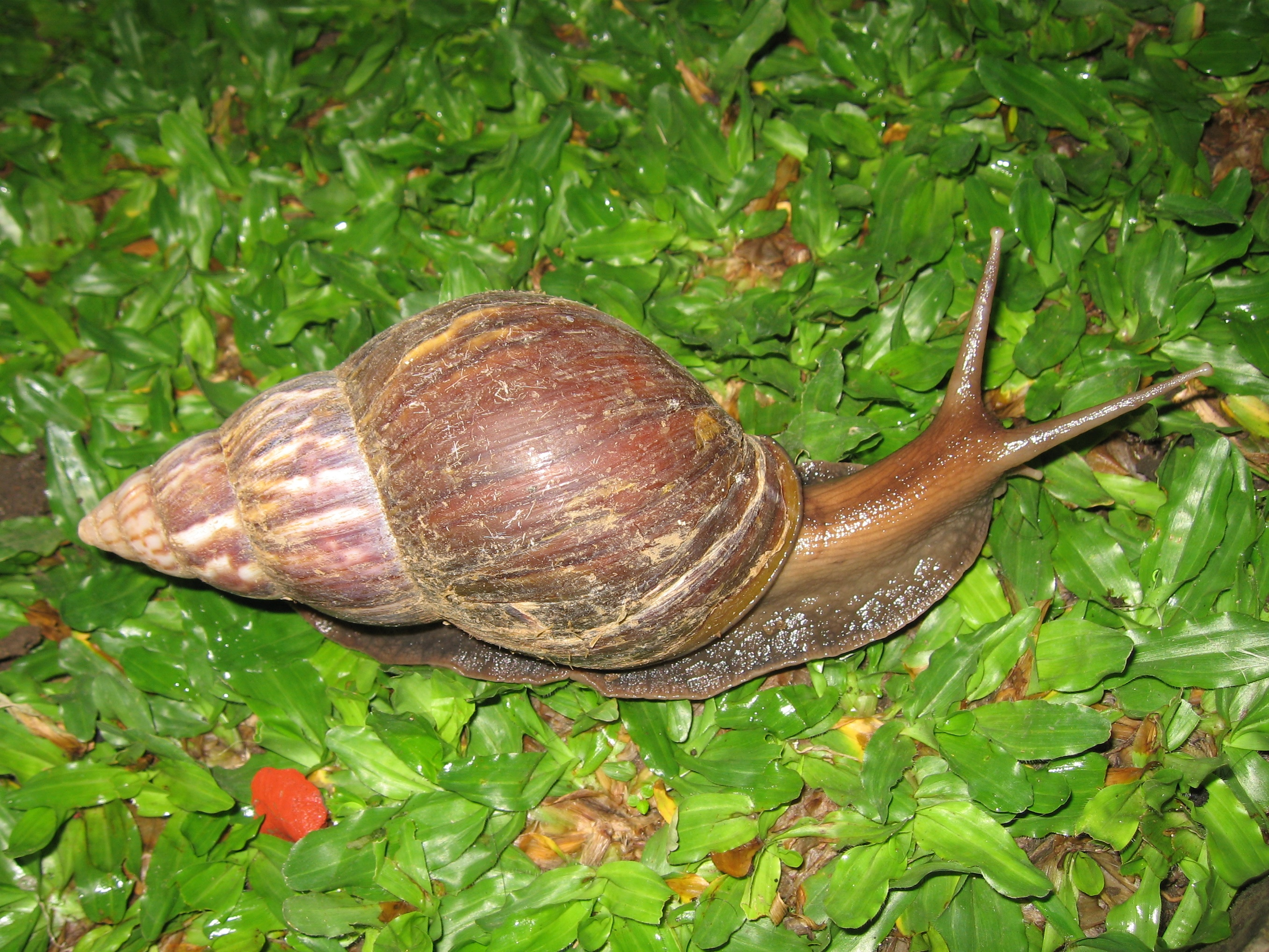 Achatina fulica in Ubud, Bali, 2010